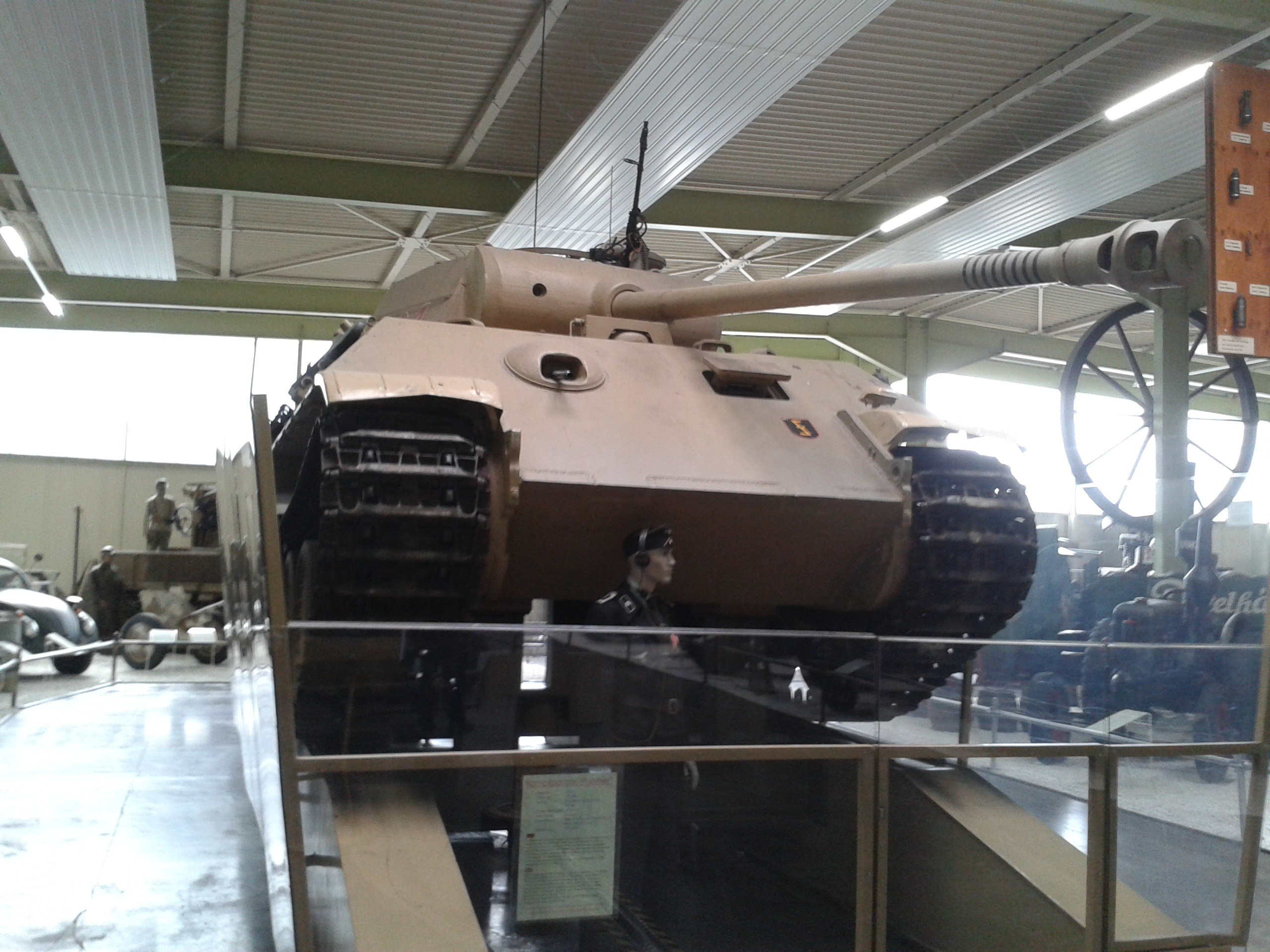 German Panther Tank on display at Sinsheim Technik Museum, Germany